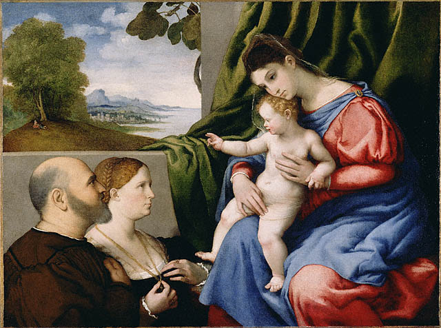 The Madonna and Child with two Donors